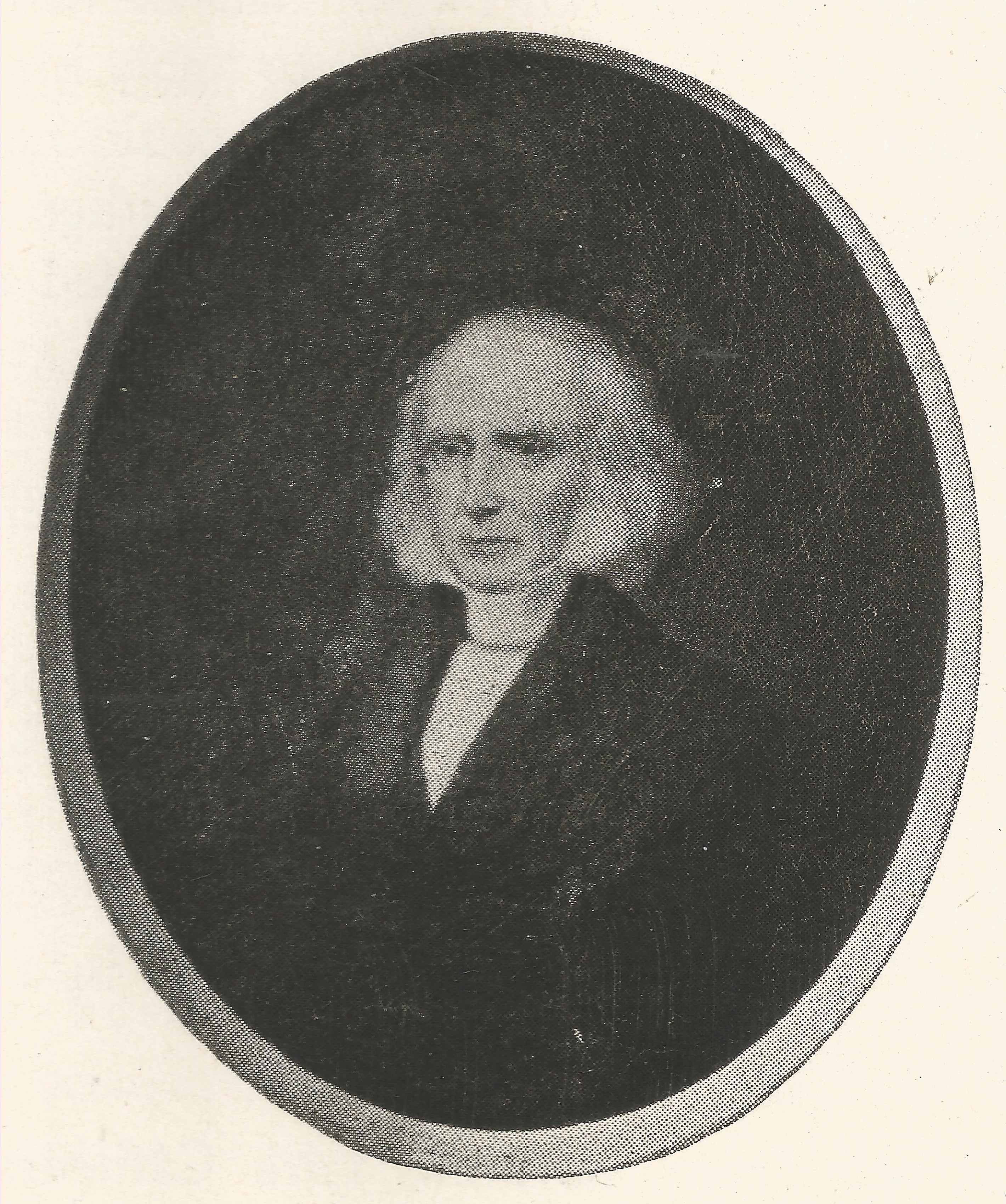 from a contemporary painting from the collection of T. O'Conor Sloane